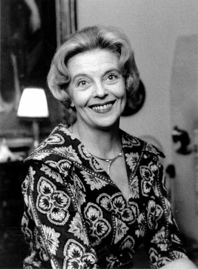 Photograph of the Finnish actress Regina Linnanheimo in 1961 (1915–1995).